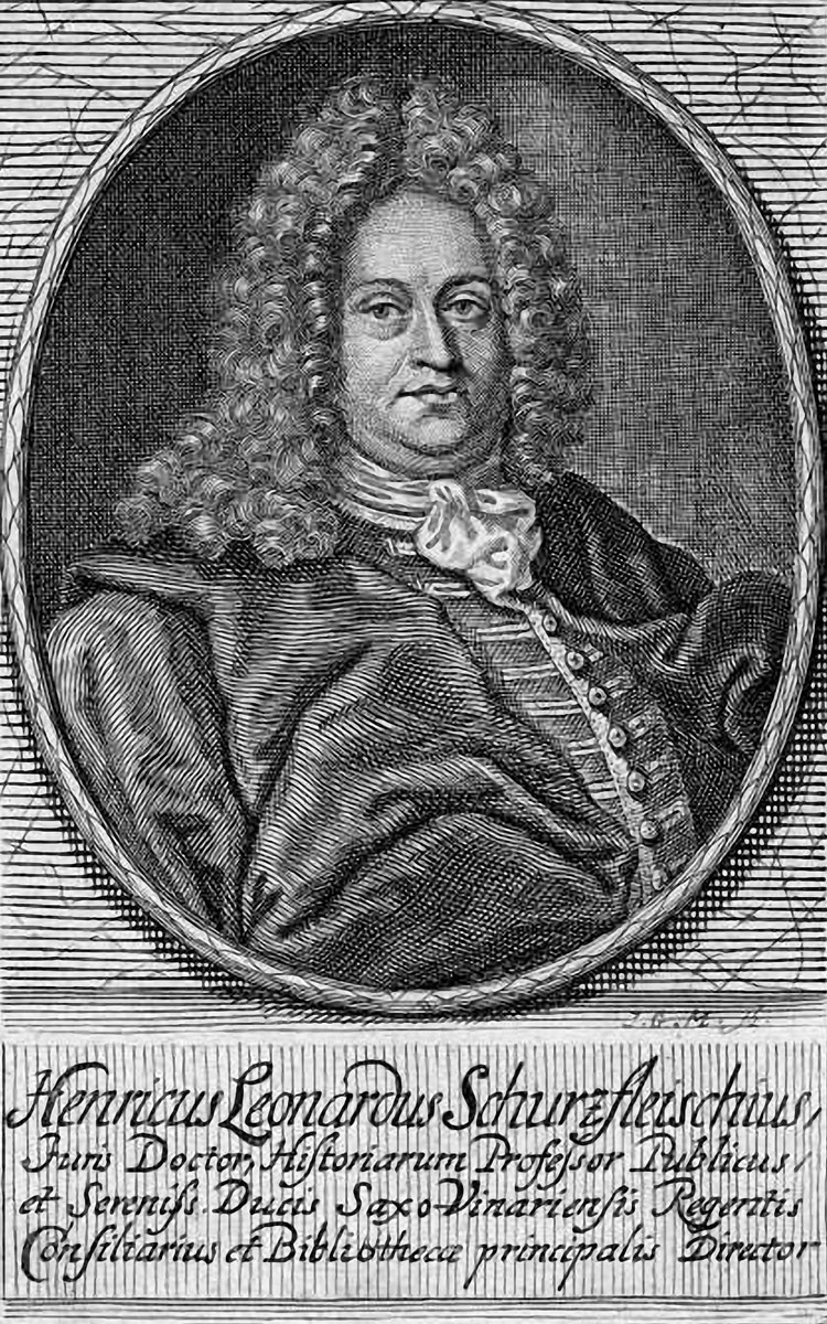 Heinrich Leonhard Schurzfleisch (1664-1722) german Jurist, Historian and Librarian